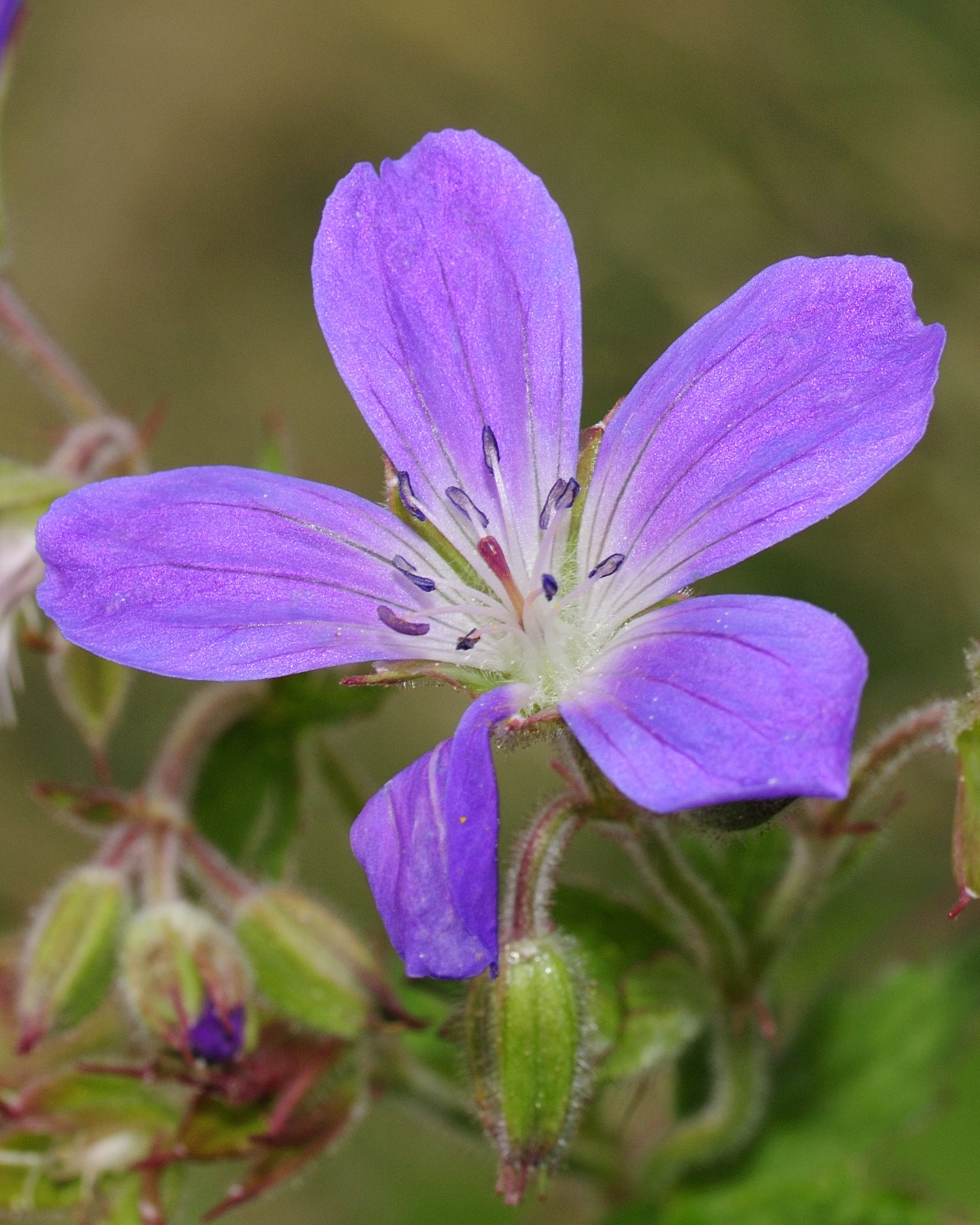 Please report references to .